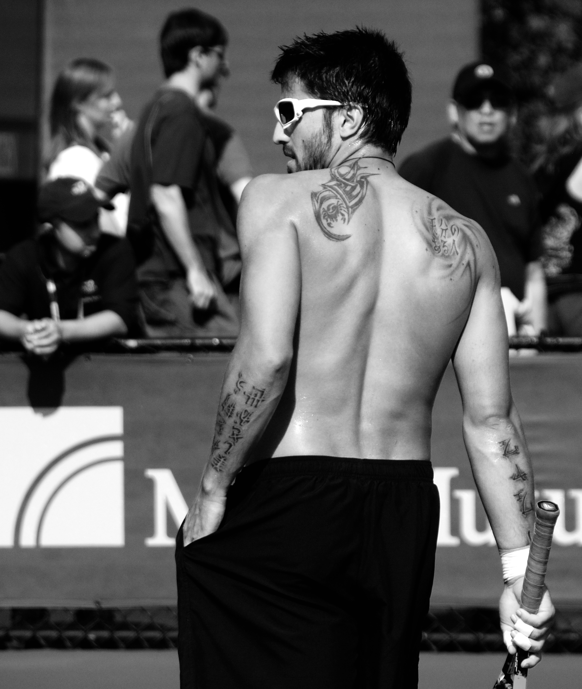 Janko Tipsarević at the 2009 US Open